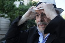 portrait of the famous director